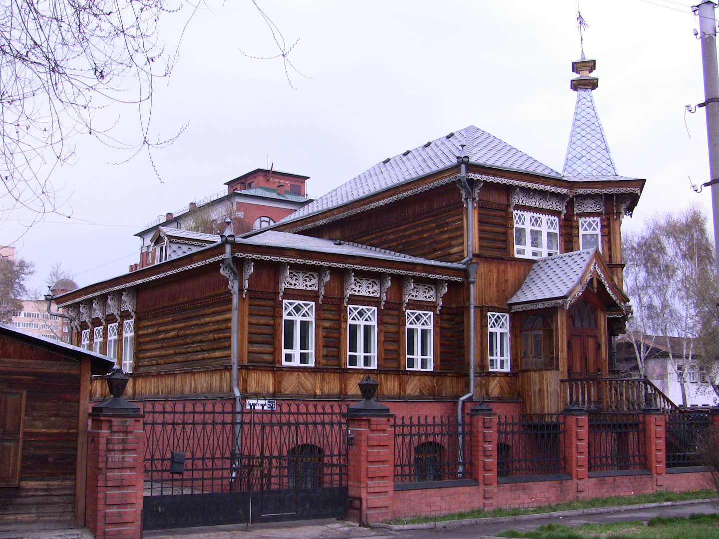 Barnaul, Nosovich House (ul. Anatoliya 106), now “House of the Architect”, built in 1907-08.